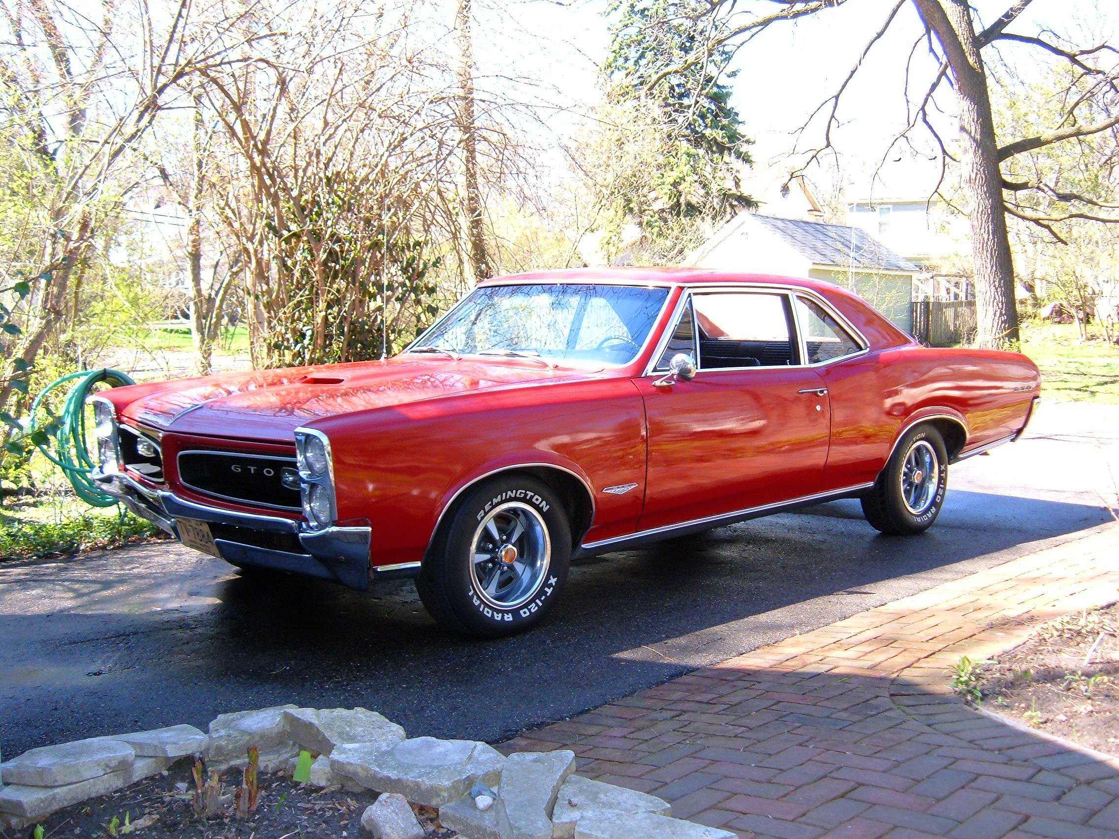 1966 Pontiac GTO coupe owned by Karl S. Freese seen with 1967 Ralley II wheels.